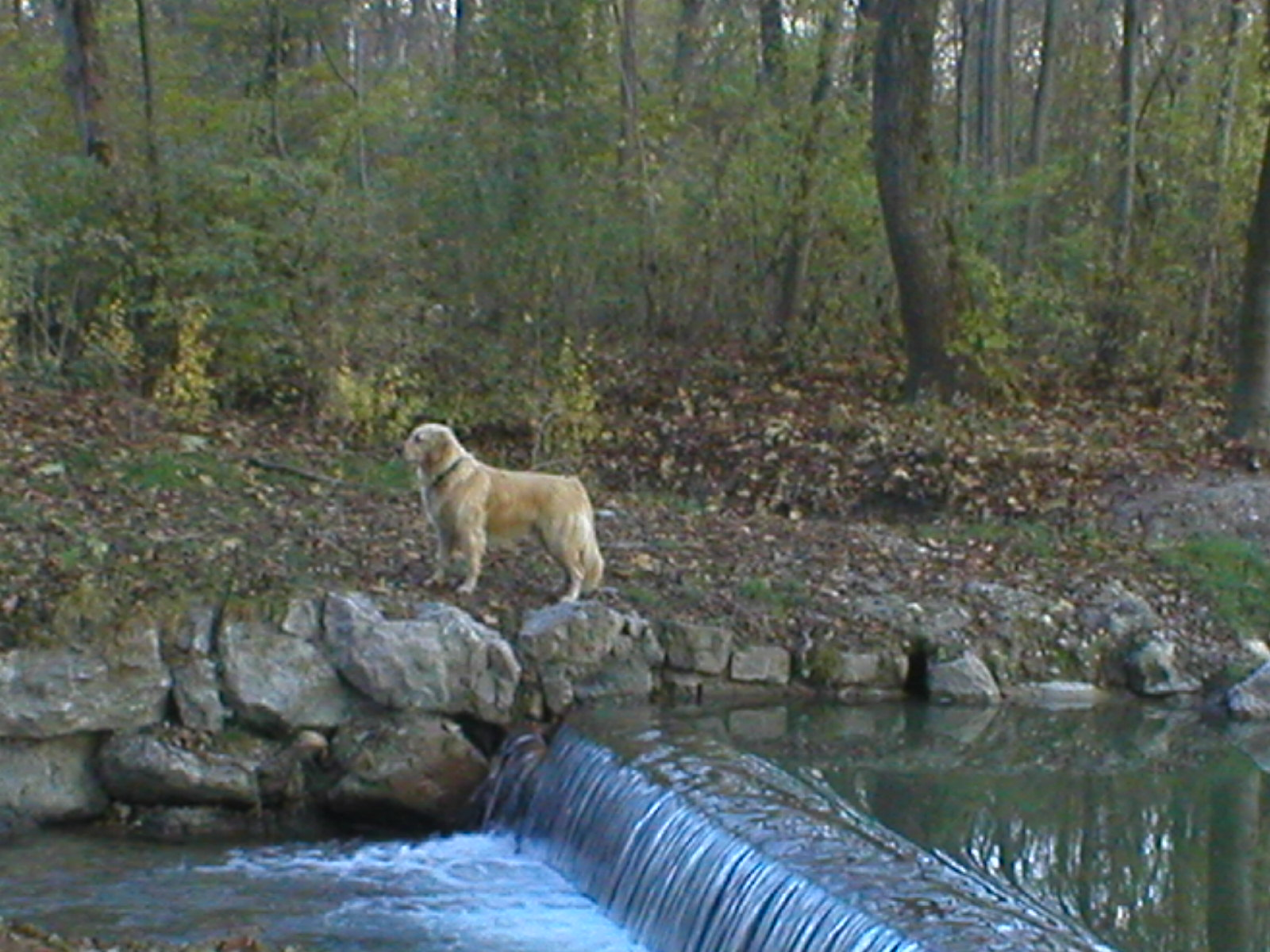 Dog in Englischer Garten, Munich, Germany